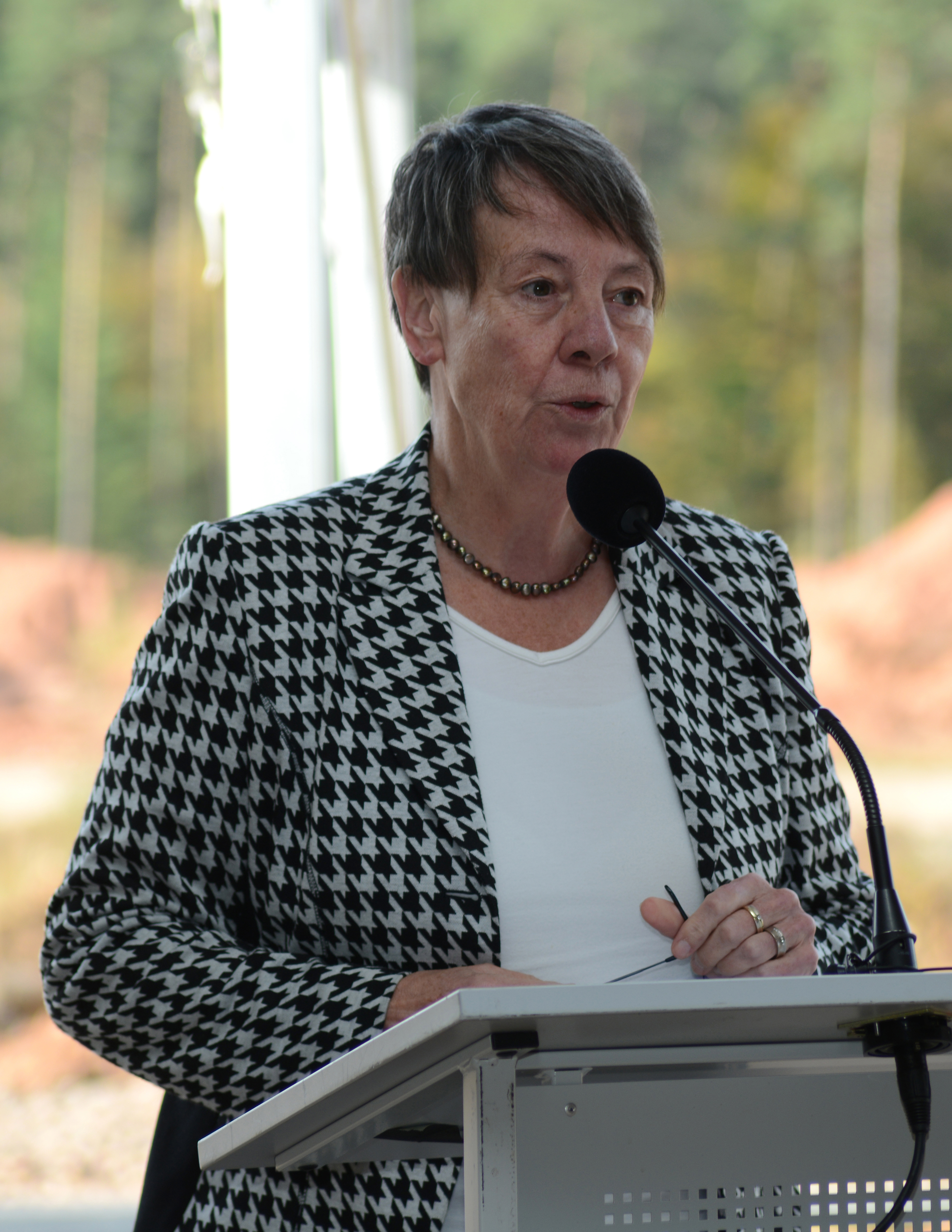 Barbara Hendricks, Federal Minister for the Environment, Nature Conservation, Building, and Nuclear Safety, speaks at the groundbreaking ceremony of the Rhine Ordnance Barracks Medical Center Replacement at Weilerbach, Germany